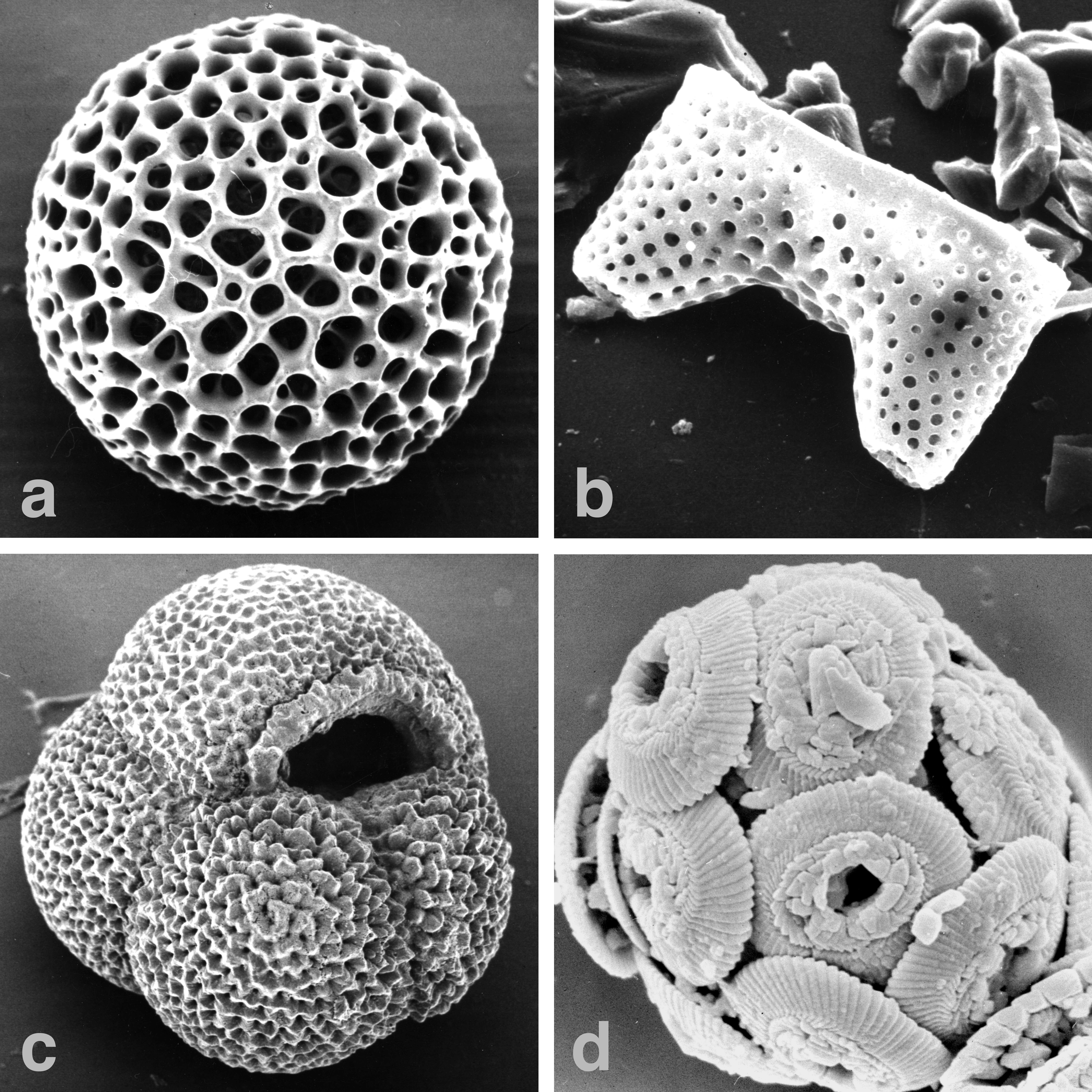 Major biogeneous components contributing to marine sediments are the remains of single celled plankton and benthos organisms. The hardpart shells are made out of silica (opal), i.e. radiolaria (a, ø=350 µm) and diatoms (b, ø=50 µm) or out of calcium carbonate, i.e. foraminifera (c, ø=400 µm) and coccoliths (d, ø=15 µm).